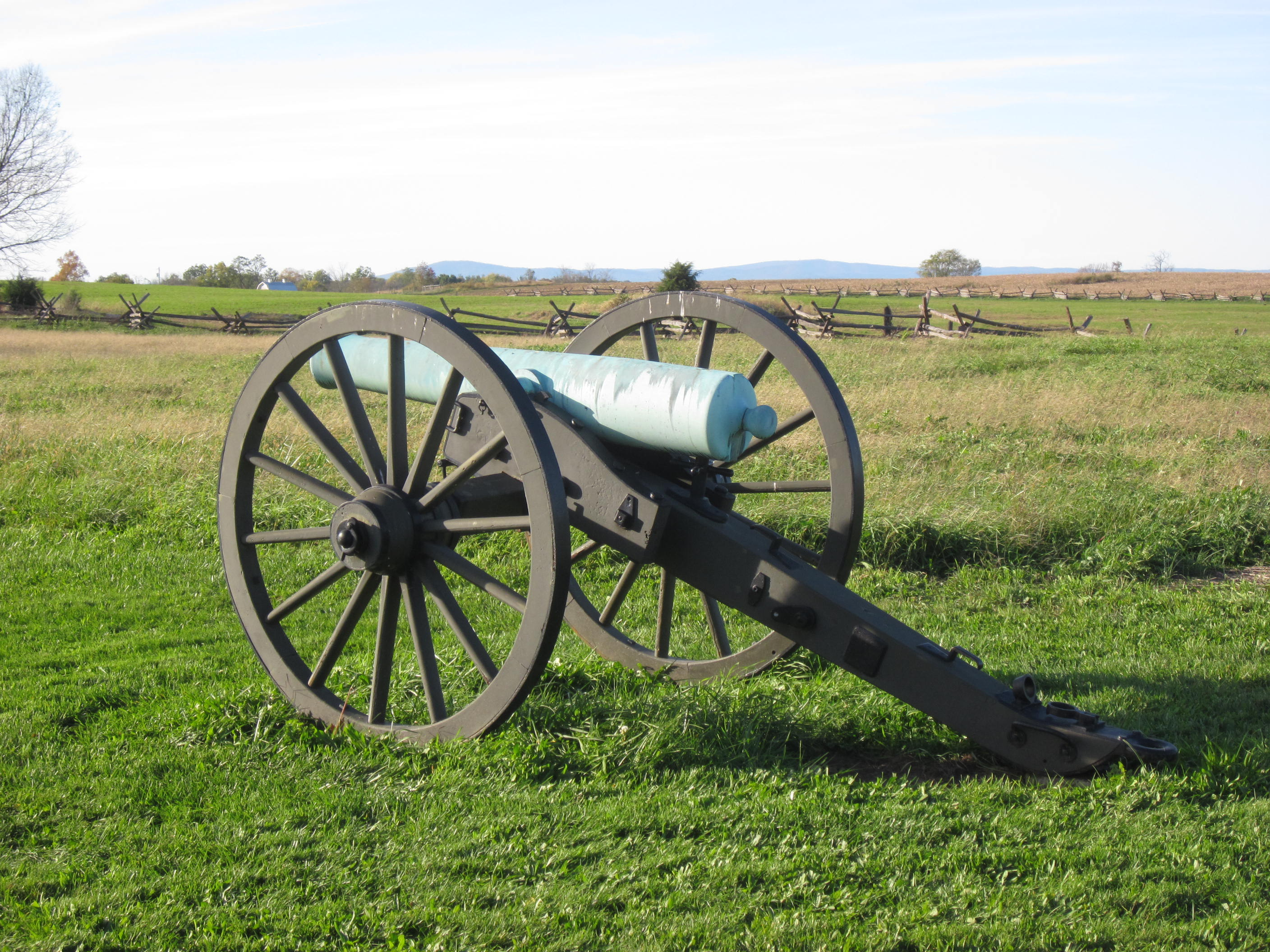 Antietam National Battlefield - Sharpsburg, Maryland